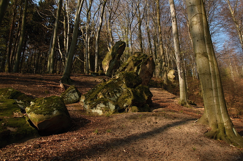 Natural monument Makovica in Uherské Hradiště District, Czech Republic Project: Chráněná území.